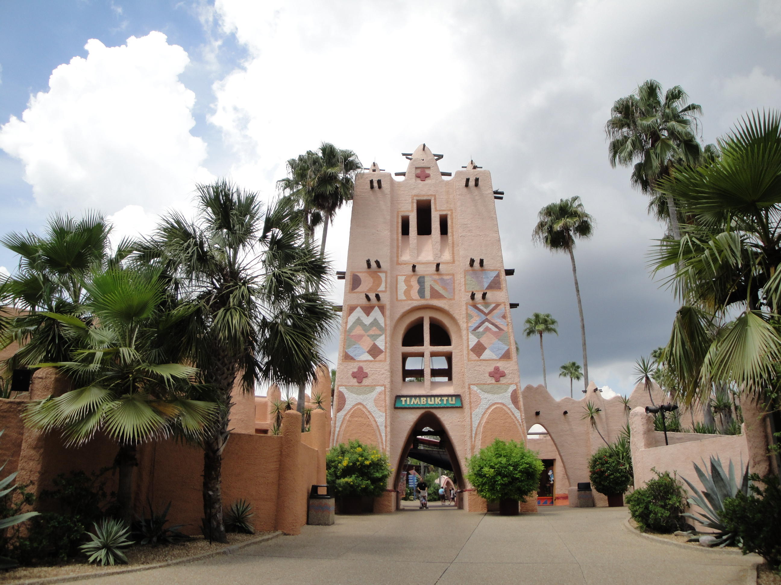 The Timbuktu-Entrence (Busch Gardens Afrika)